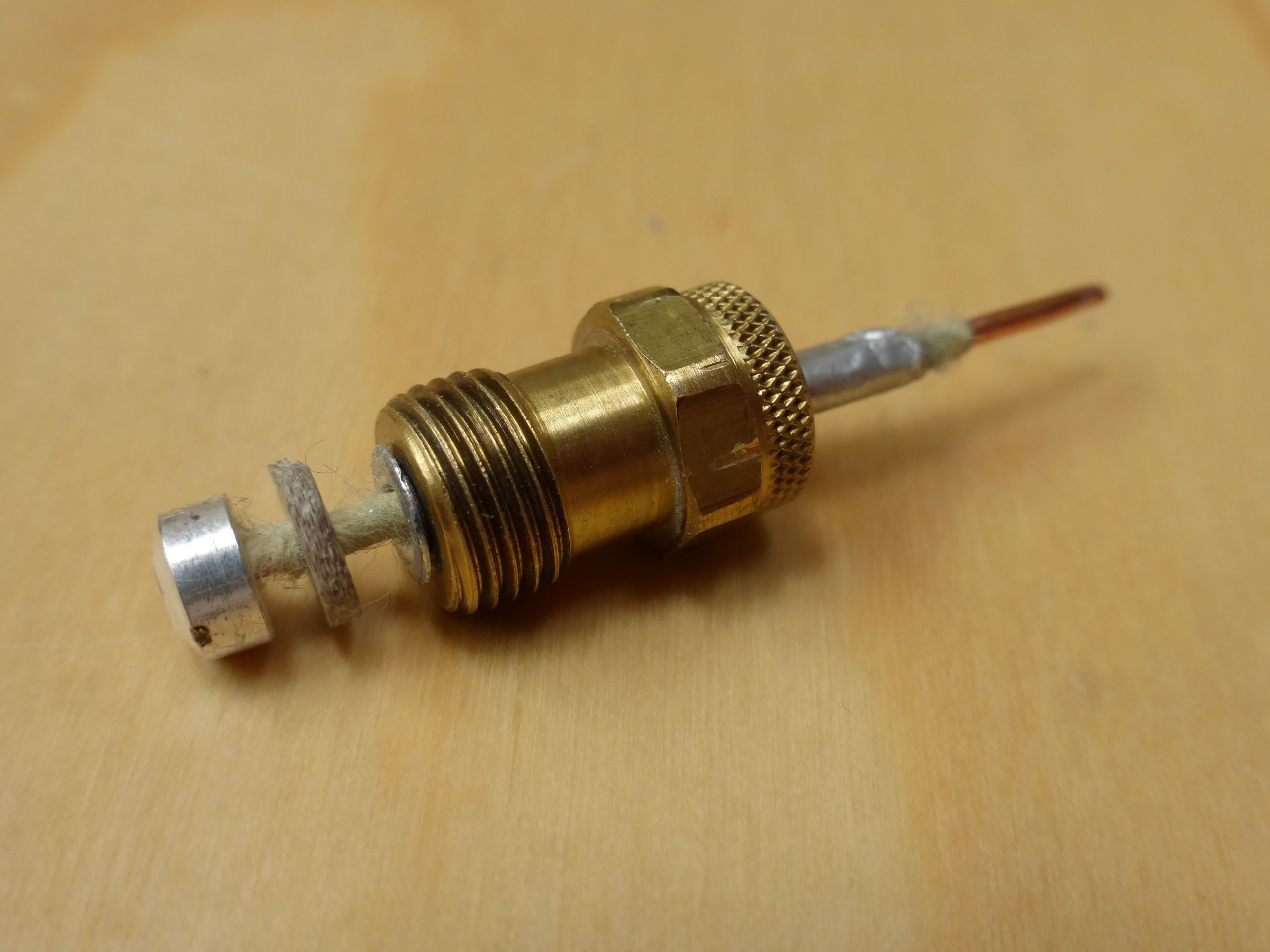 The connection of the thermocouple to connect to the combination thermostat/gas valve. From left to right: the end ball (contact) that carries millivolts, insulating washer and connector fitting with metal sheath inserted inside. The thermocouple line consists of the outer metal (usually copper) sheath, insulator and copper wire. The millivolt current runs through the copper wire and grounded at the sheath.